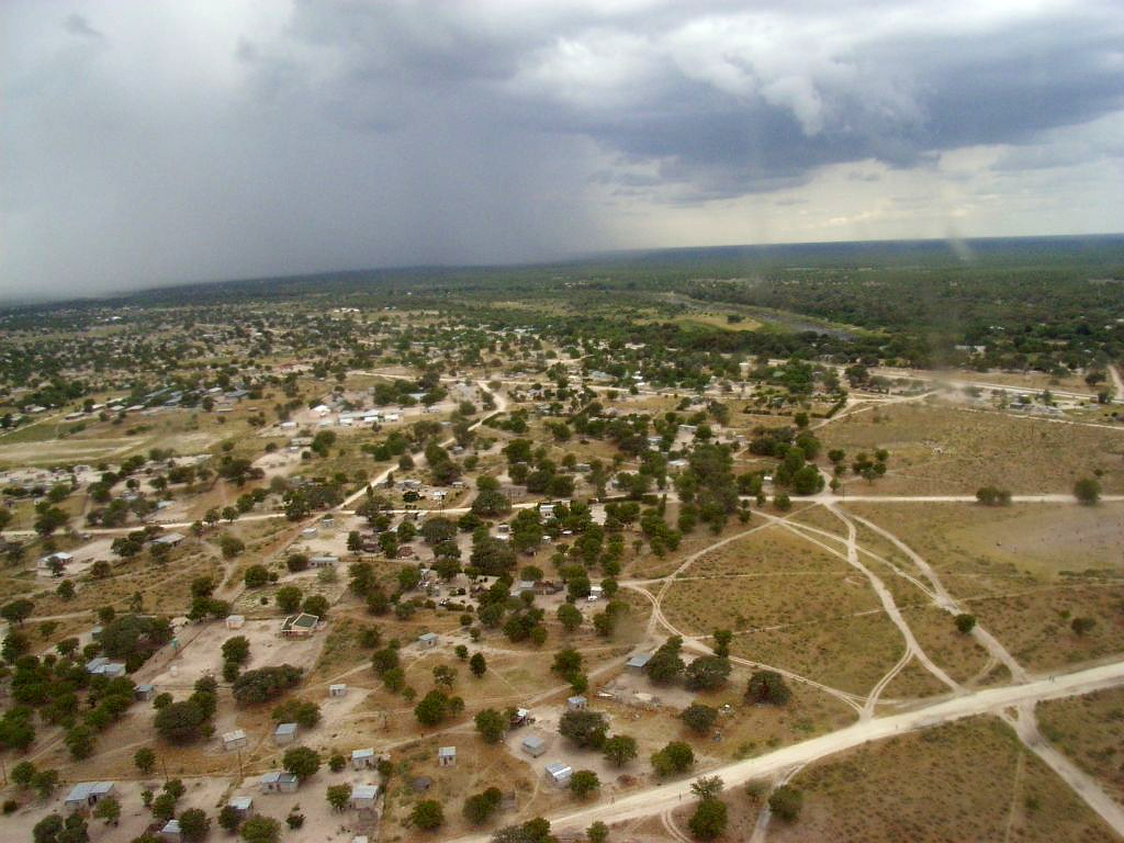 Maun, Botswana, viewed from a Cessna aircraft, early 2007 illustrating the typical village structure and traditional architectural styles.